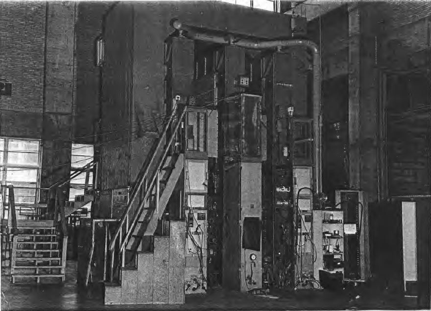 Located in Building 9731 with a two bin Beta development unit, this calutron was used for research, development and training